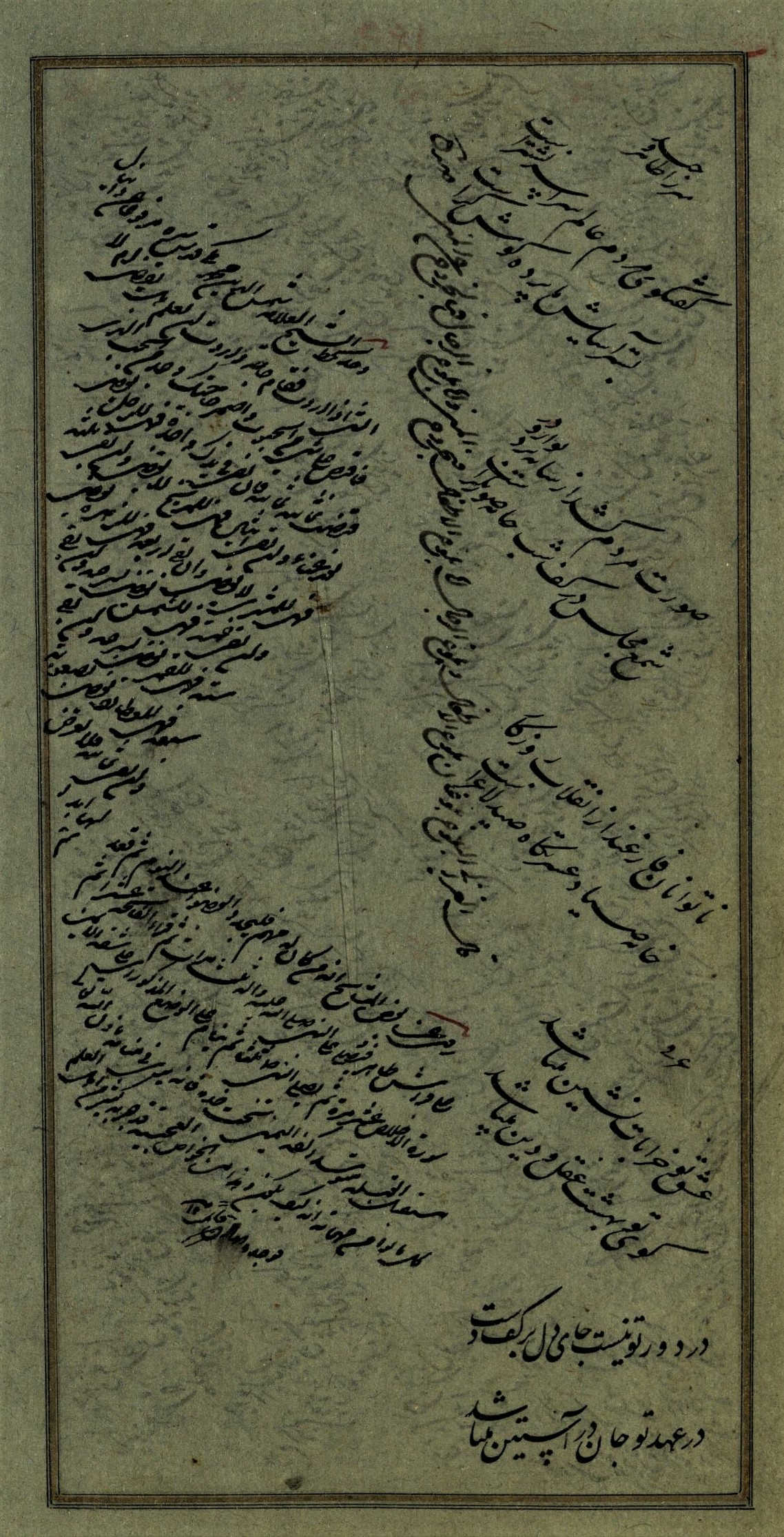 Pomes by Mohammad Taher Vahid Qazvini (died 1699) in literary collection compiled by Mirza Muhammad Fayaz Sabzevari Central Library and Documentation Center of the University of Tehran Number: 9707, page: 165 (back)